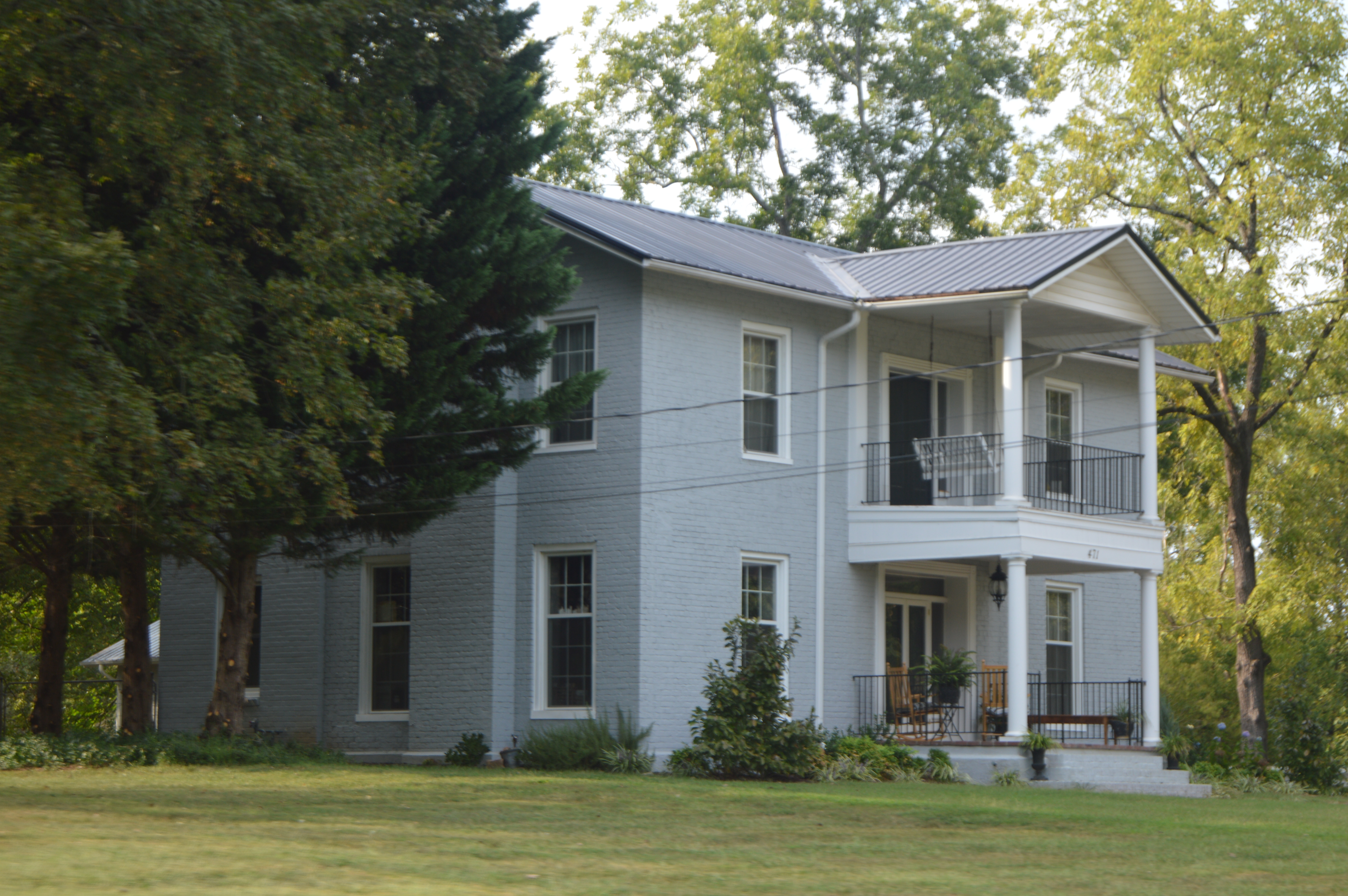 Front and southern end of the Harbin-Long House, located at 471 S. Salisbury Street in Mocksville, North Carolina, United States. Built in 1859, it is part of the Salisbury Street Historic District, a historic district that is listed on the National Register of Historic Places.